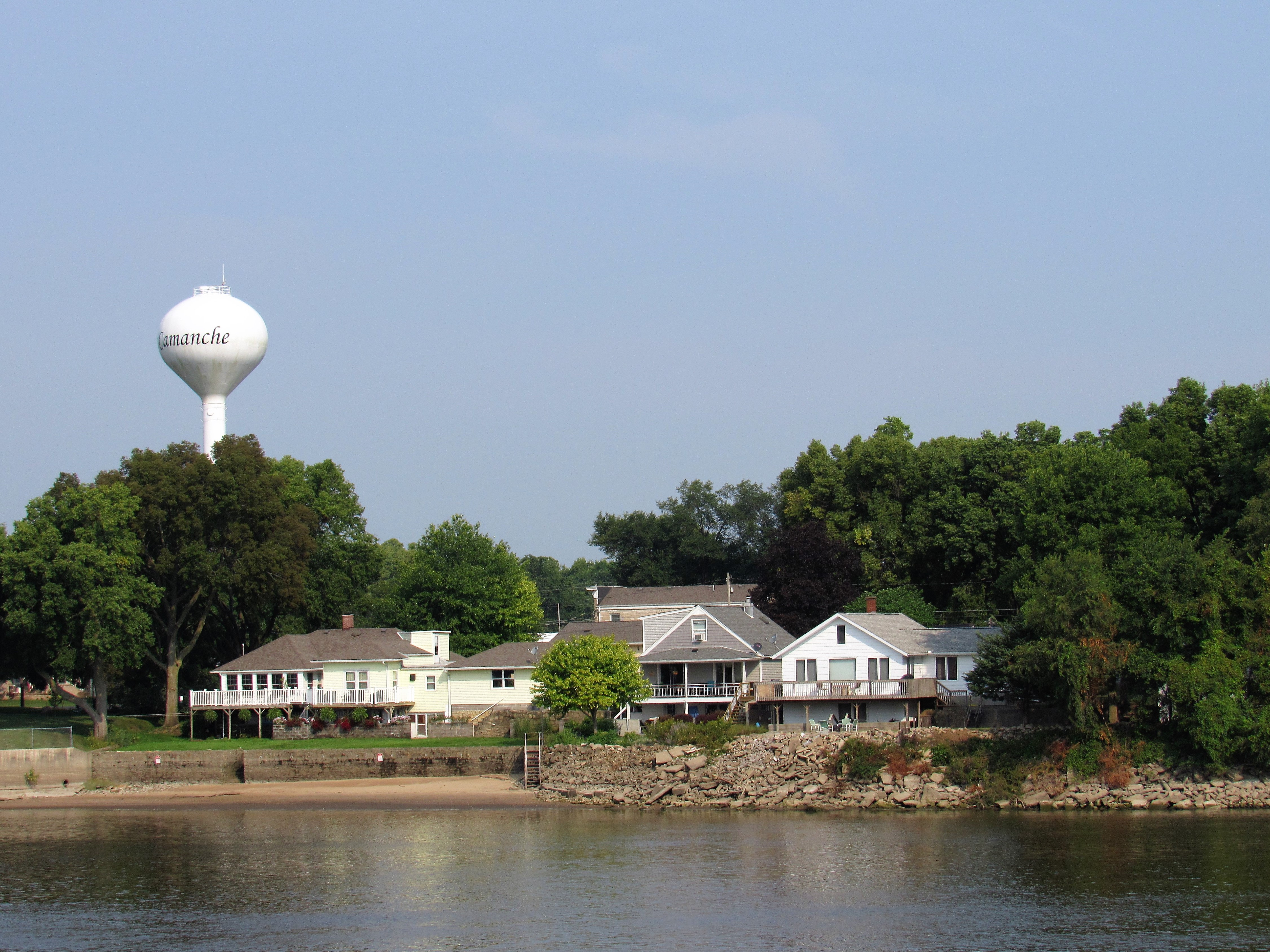 Houses in Camanche, Iowa from the Mississippi River.